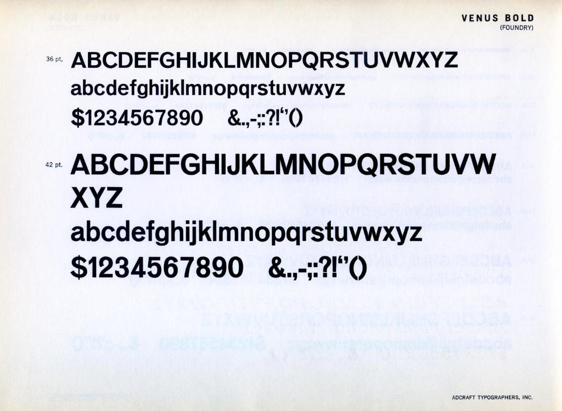 From